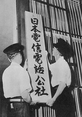 Establishment of Nippon Telegraph and Telephone Public Corporation